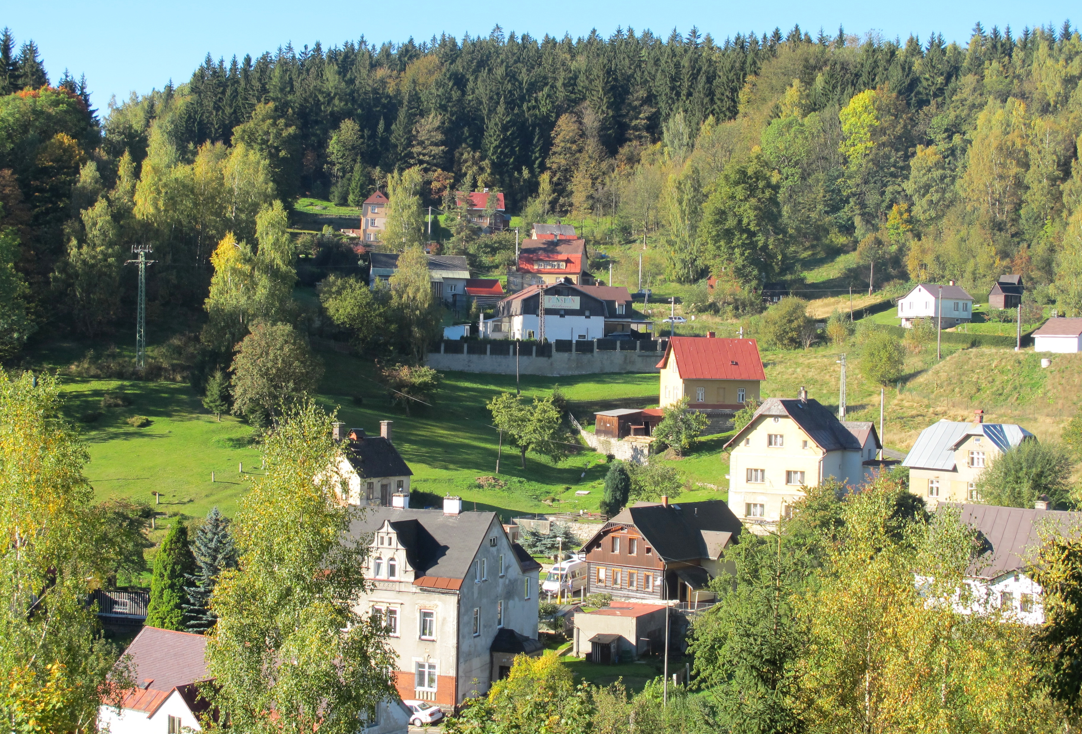 Janov nad Nisou in Jablonec nad Nisou District, Czech Republic